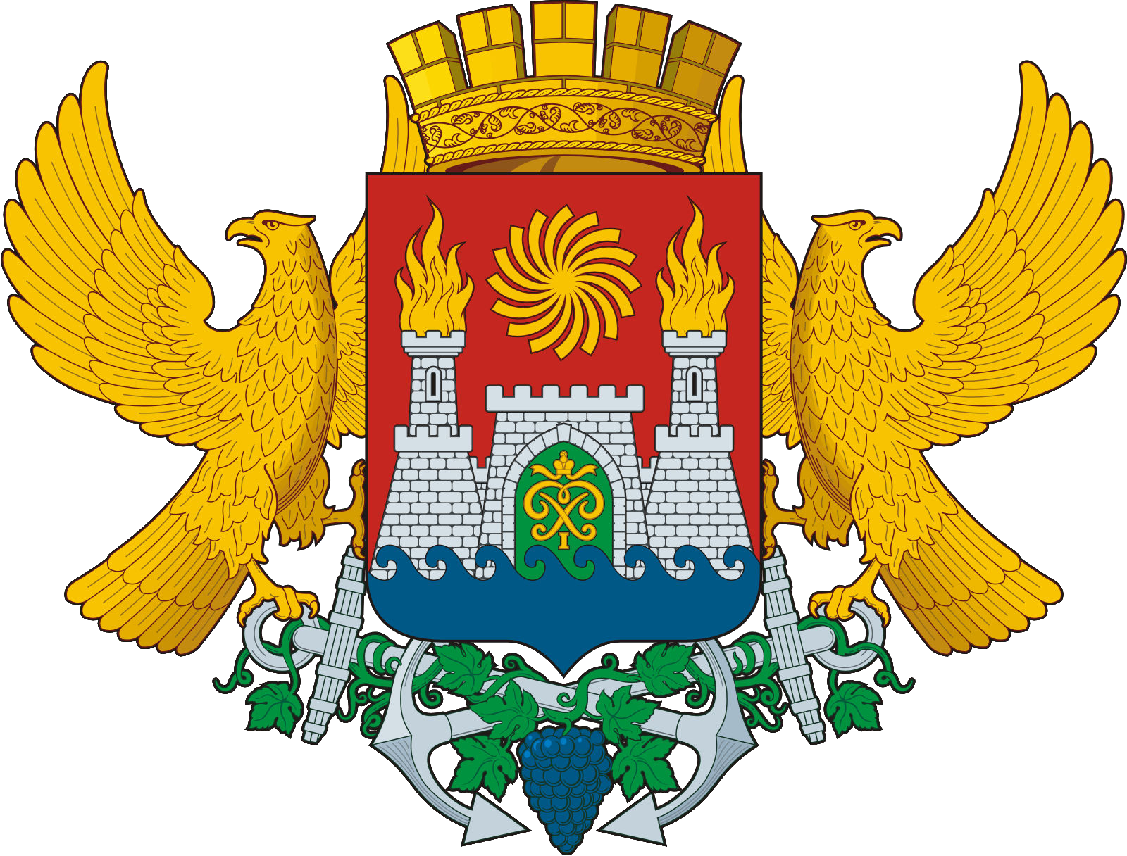 Coat of arms of Makhachkala.